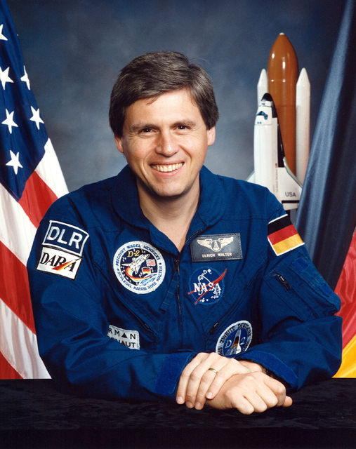 Official portrait of STS-55 SL-D2 Payload Specialist 1 Ulrich Walter. German Payload Specialist 1 Ulrich Walter poses for his Official portrait. Walter is assigned to the STS-55 Columbia, Orbiter Vehicle (OV) 102, Spacelab Deutsche 2 (SL-D2) mission. This is the second dedicated German Spacelab flight. United States and German flags and a space shuttle orbiter model in launch configuration create the backdrop.